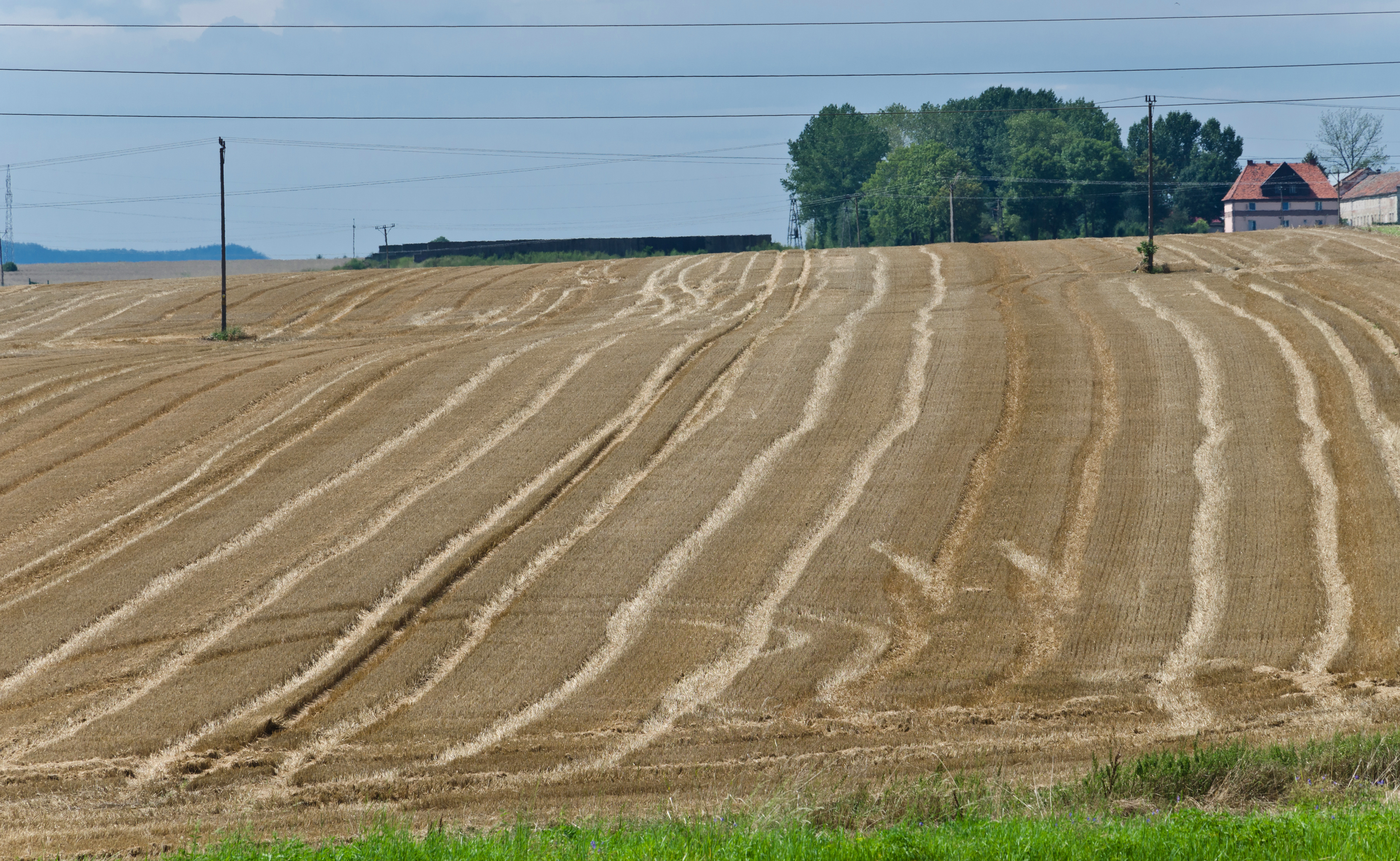 Field crops in Kościelniki district, in Kłodzko